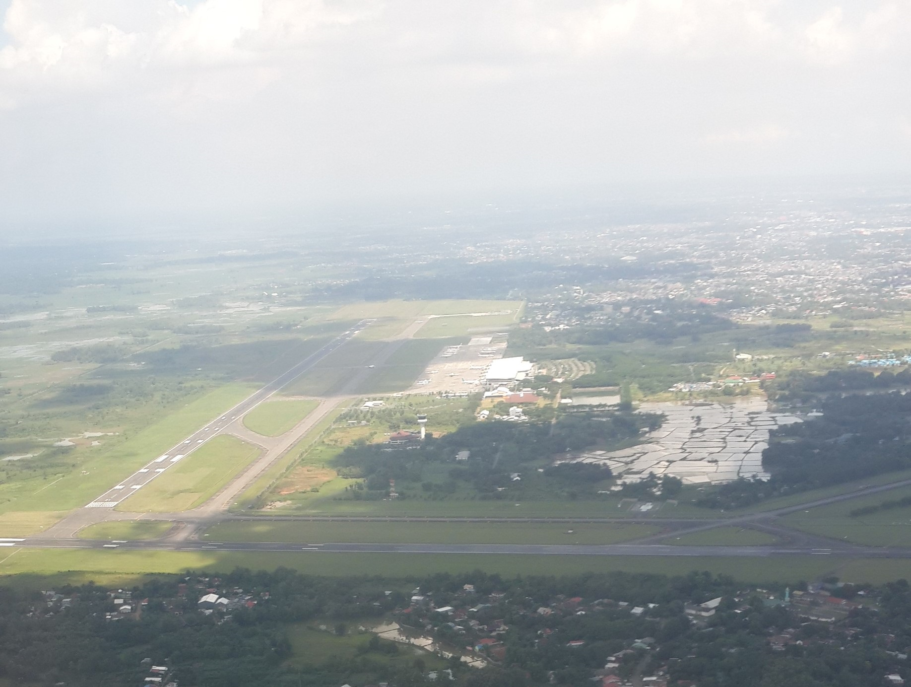 Sultan Hasanuddin International Airport, Makassar, Indonesia